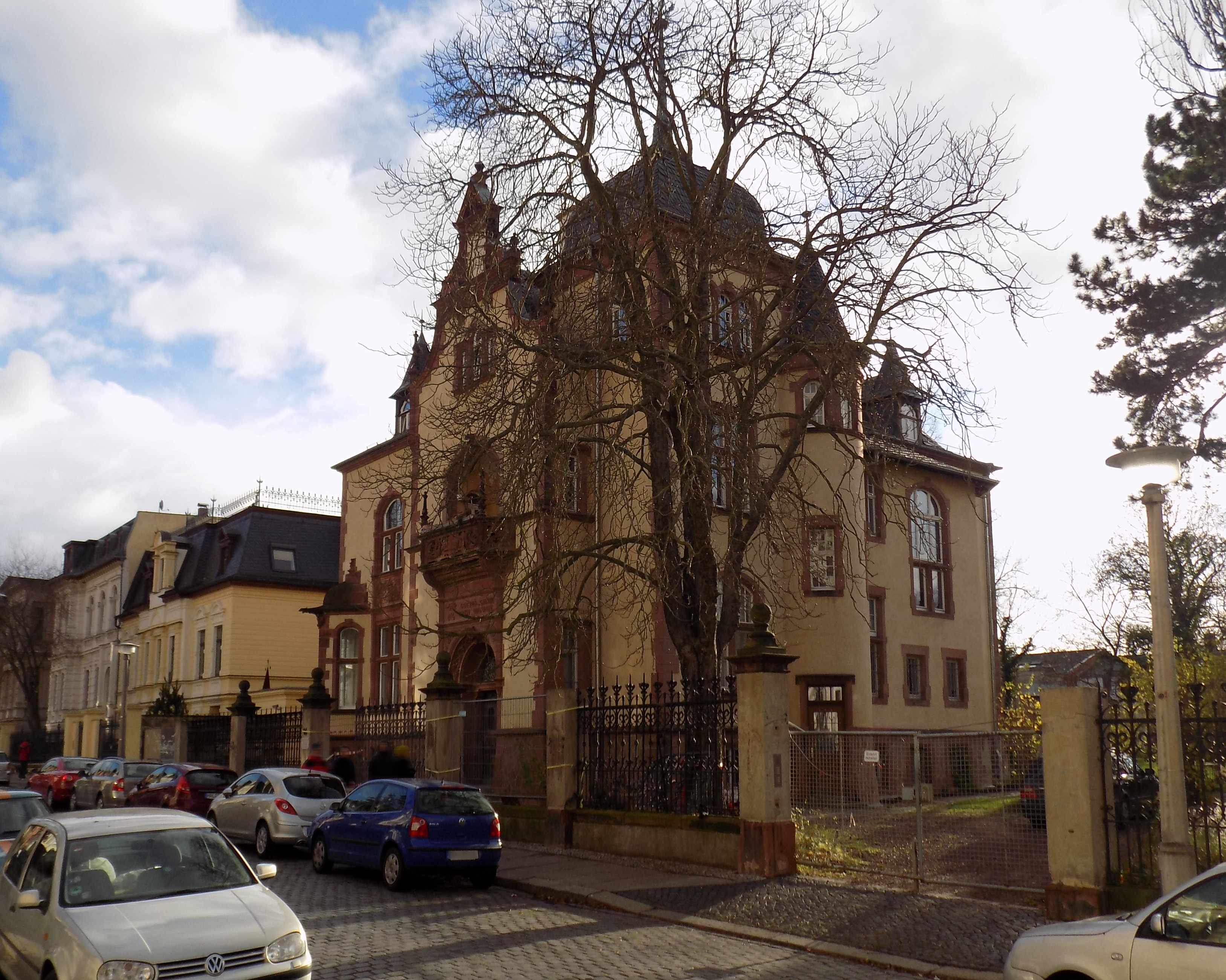 Villa Weise, No. 16, Händelstrasse in Halle/Saale (Saxony-Anhalt)